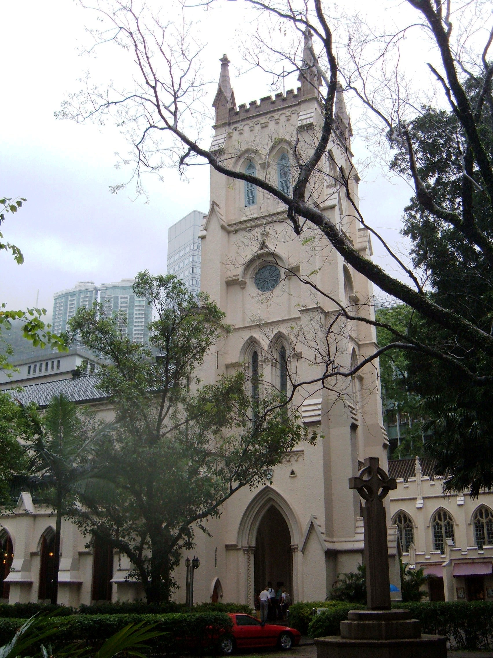 Bell tower of St. John's Cathedral in Central, Hong Kong.